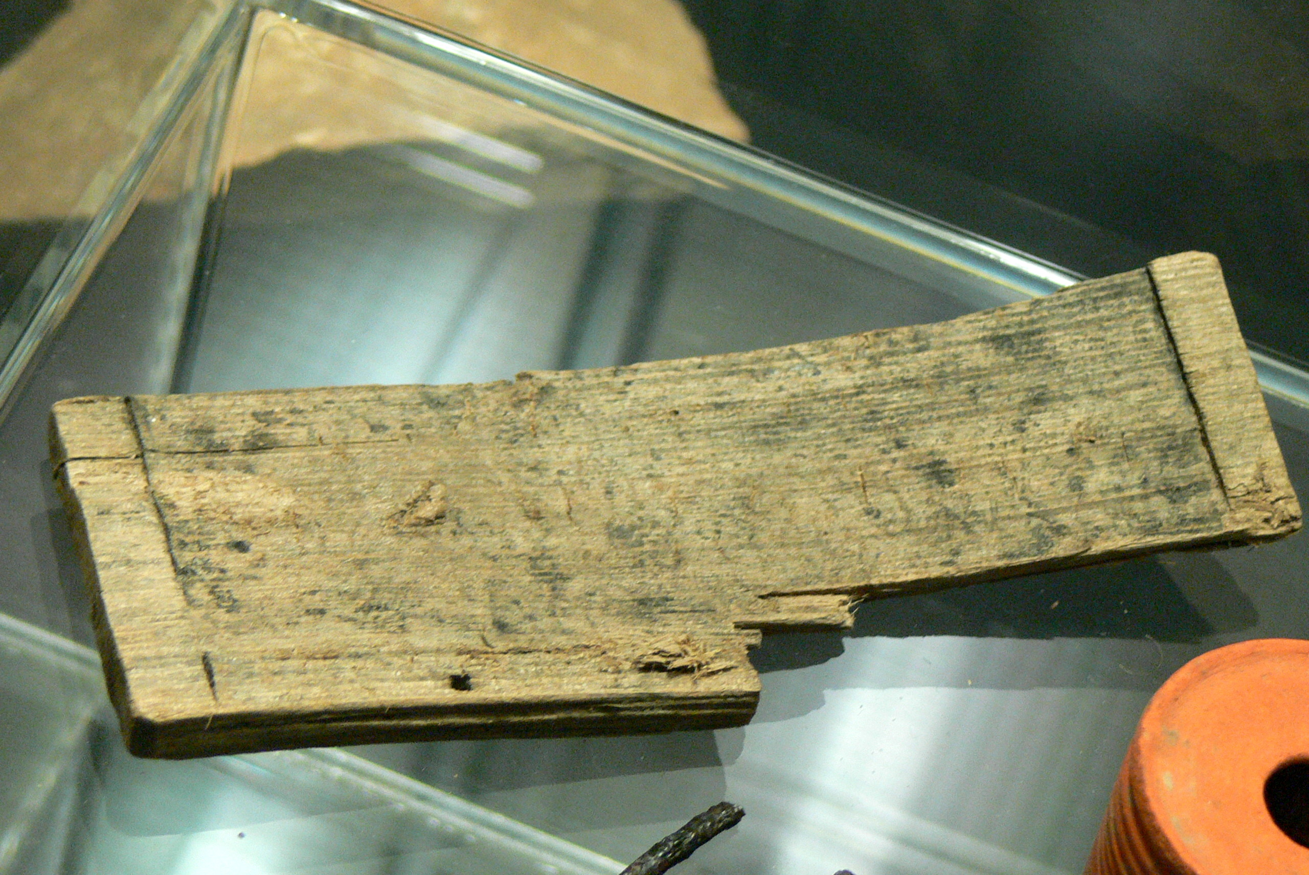 National Museum of Wales ( Cardiff ). Part of a wooden writing tablet from the ancient Roman fortress of Caerleon, Wales.